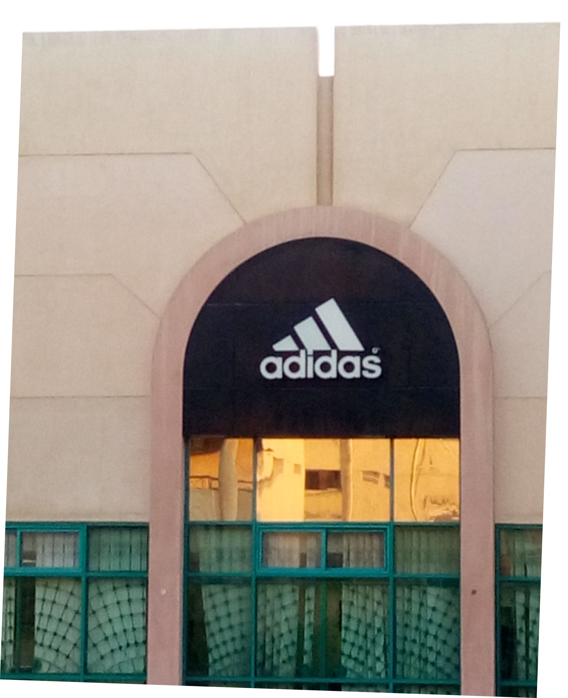 Adidas branch in Rehab , New Cairo (from overseas)